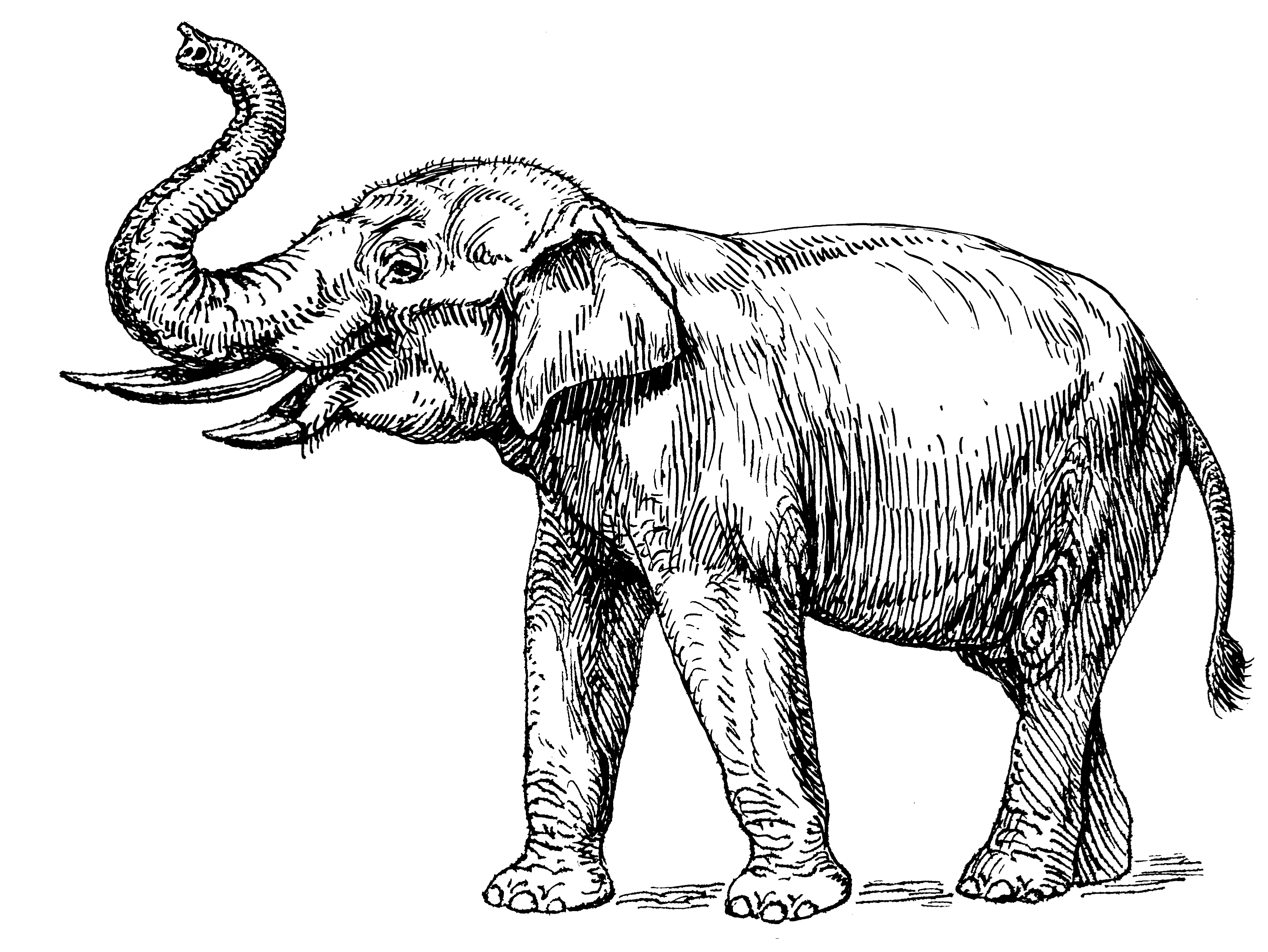 Primelephas